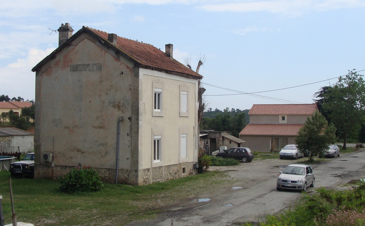 The old Tallone station, on the east coast track in Corsica, as it is now (2008). The village is 15 kms (10 miles) distant